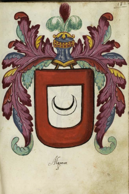 arms of Alpoim, Alpoen, Alpuy and others